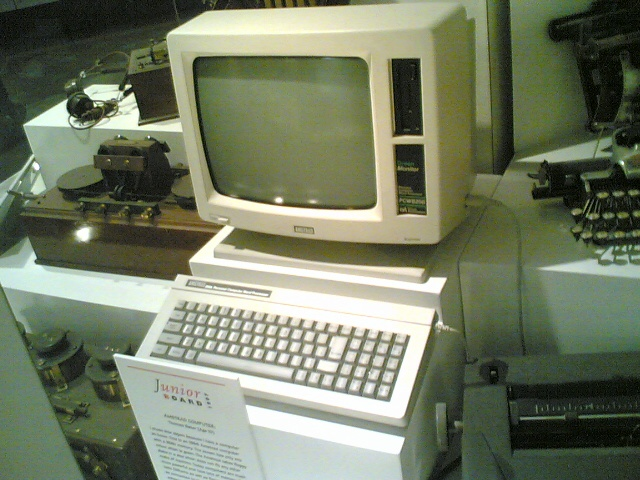 An Amstrad PCW (Royal Museum, Edinburgh).